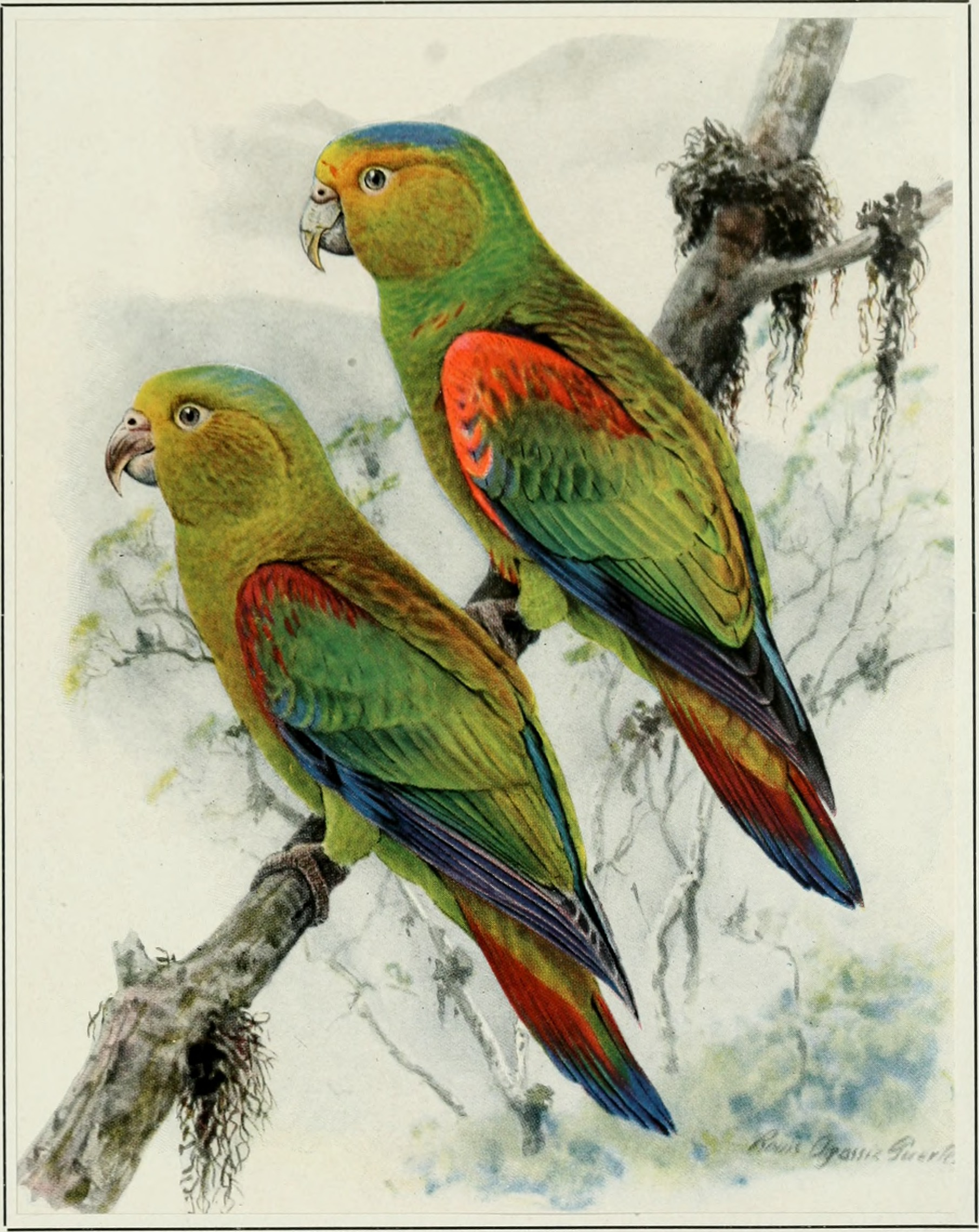 Title: The American Museum journal Year: c1900-(1918) (c190s) Authors: American Museum of Natural History Subjects: Natural history Publisher: New York : American Museum of Natural History Text Appearing Before Image: ' Text Appearing After Image: A NEW MOUNTAIN PARRAKEET About one half natural siz^ Fuertes' Parrakeet, Ilapalopsittaca fuertesi (Chapman), a new species collected by one of the Chapman Expeditions at 10,340 feet elevation, near Quindio Pass, Cauca, Colombia. Of the r28ospe:ies, 61 families, des ribed in Chapman's Dinlribution of Bird-Life in Colombia, all were coUec'ted by the Chapman Expeditions. These 1285 species of birds, with the exception of 4o North American migrants, are permanent residents of Colombia. Of this family of macaws, parrots, and parrakeets (Psittacida;), there were 31 species collected, most of them living in low altitudes; 22 spe:-ies in the Tropical Zone, 6 in the Subtropical, 2 including the new species in the Temperate, and none on the Paramo. The new parrakeet (there were 7 specimens taken) was named in honor of the artist, Mr. Louis Agassiz Fuertes. The lower figure shows the plumage of the immature bird